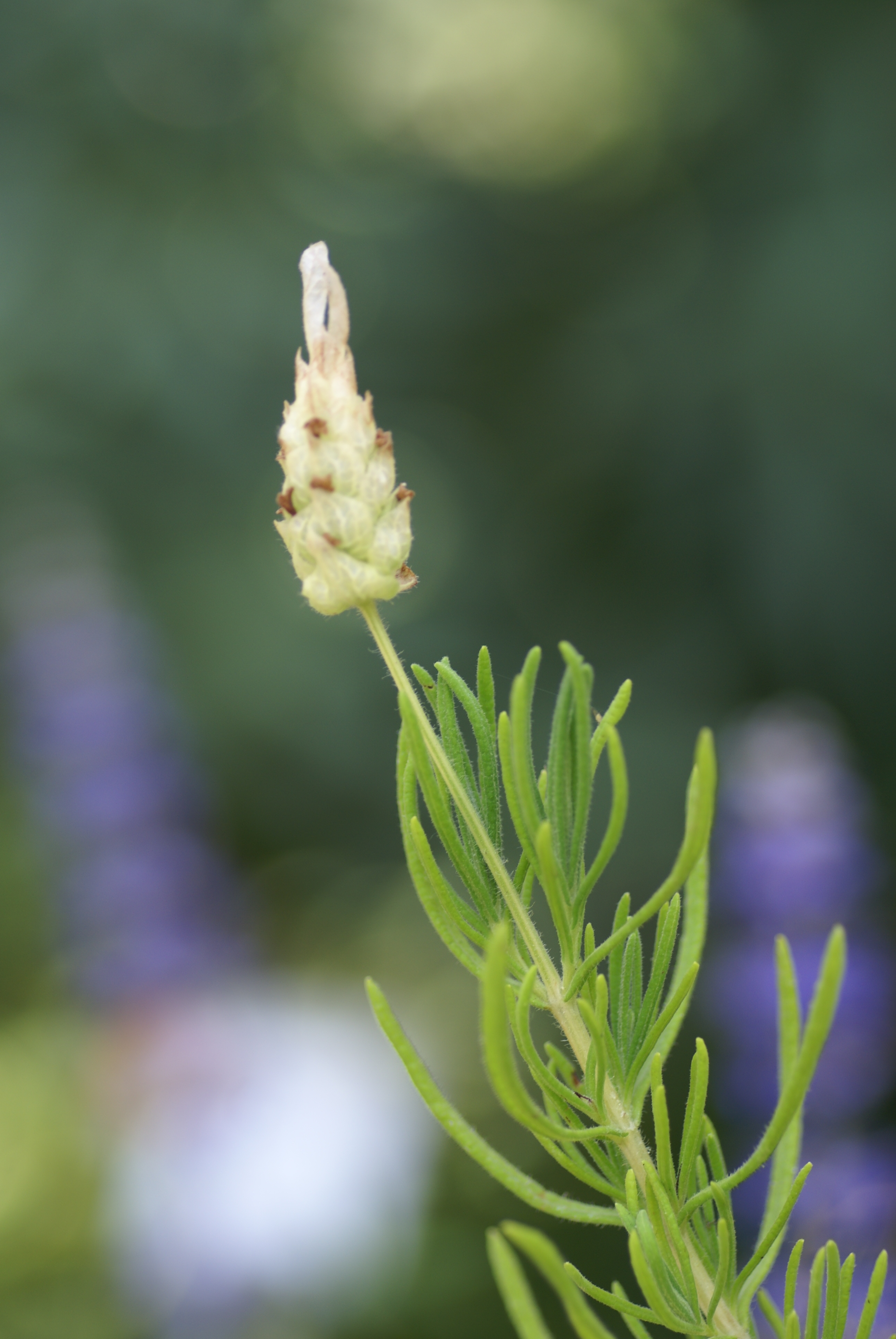 Plant species Lavandula viridis in Botanischer Garten und Botanisches Museum Berlin-Dahlem, Berlin, Germany